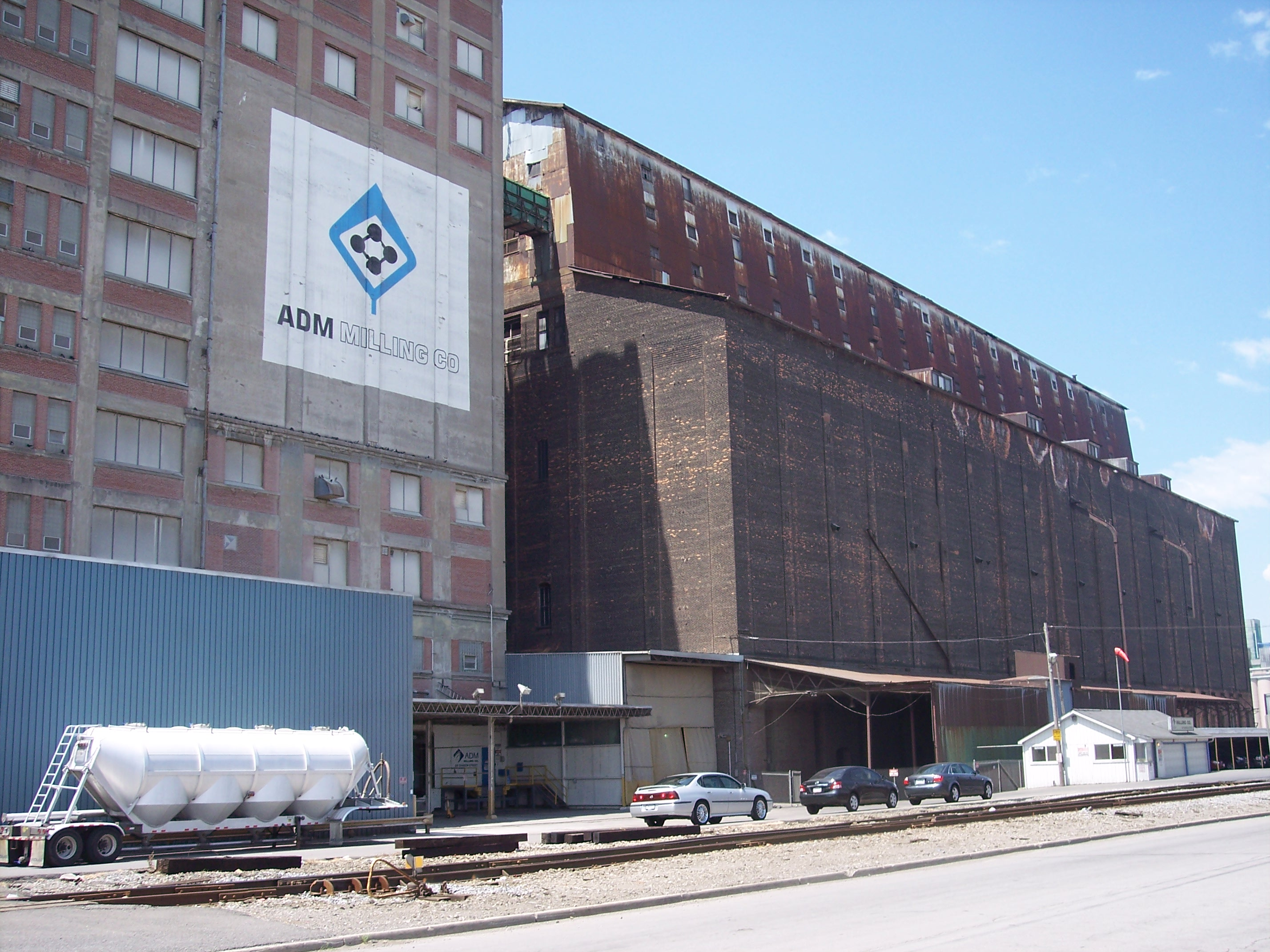 Great Northern Elevator, 250 Ganson Street, Buffalo (Erie County) NY United States